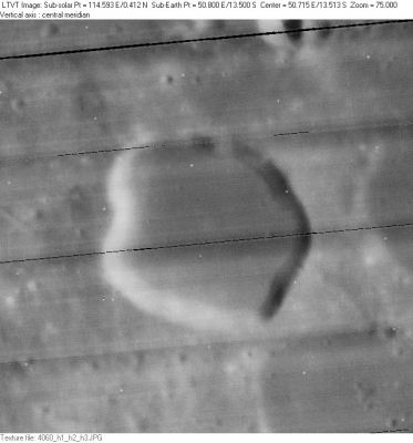 Crozier lunar crater - image LO-IV-060H